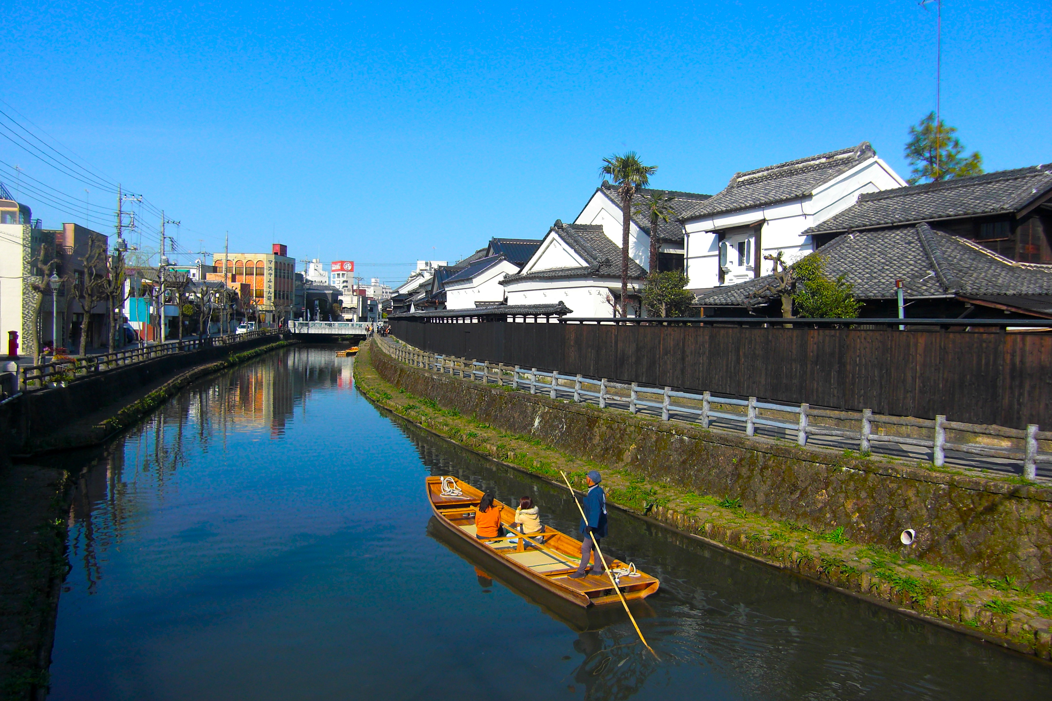 The city of Tochigi, Tochigi Prefecture, Japan.